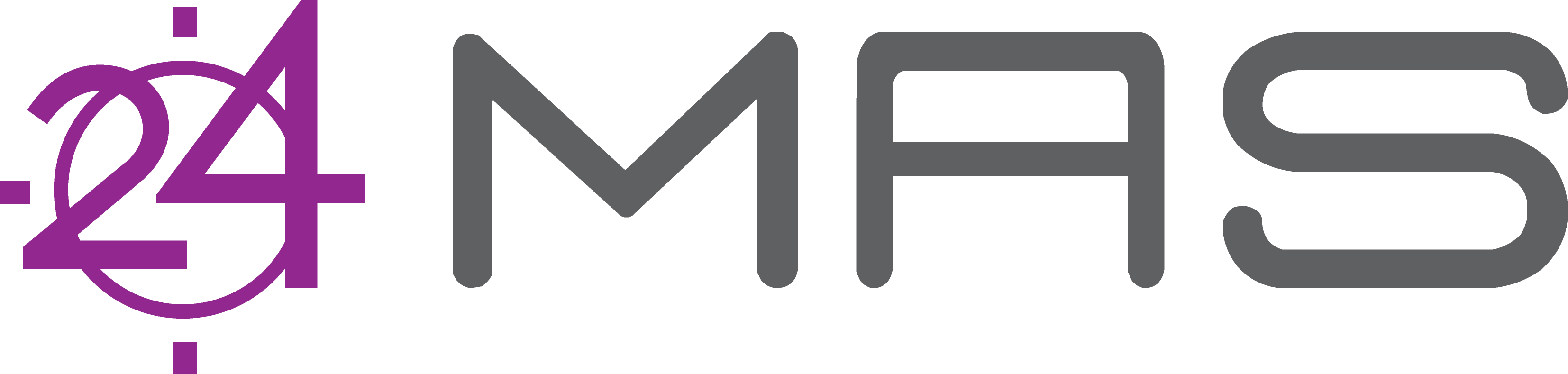 24MAS logo